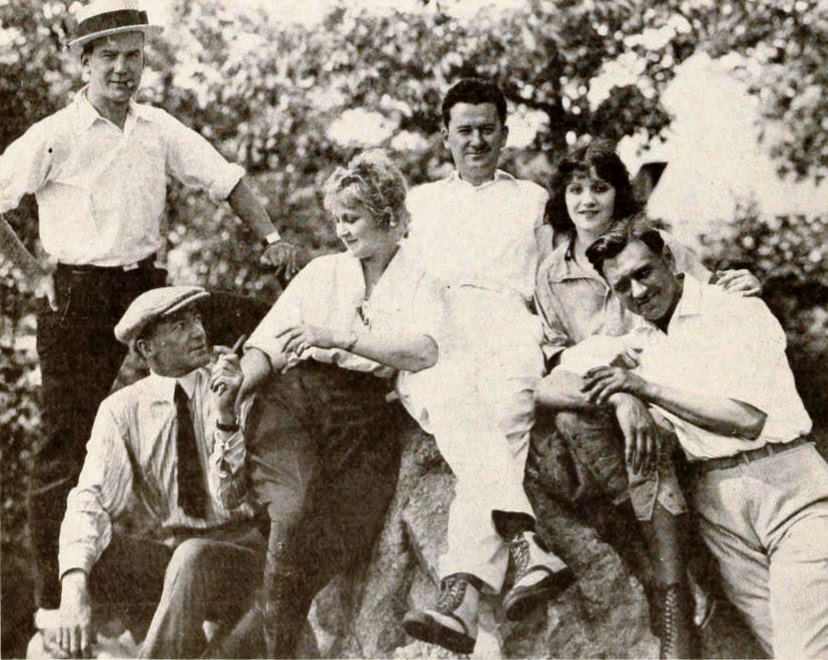 Still with the crew and cast of A Cry at Midnight (1916) with director Robert Ross (note that the IMDB lists the film director as Alexander Hall), Robert Broadwell president of Broadwell Productions, Mae Gaston, Thomas Carrigan, Mrs. Colin Chase, and Colin Chase, all on location in Medford, Massachusetts, on page 38 of the August 7, 1920 Exhibitors Herald. The film may have been reissued in 1920 under the title Nick Carter.